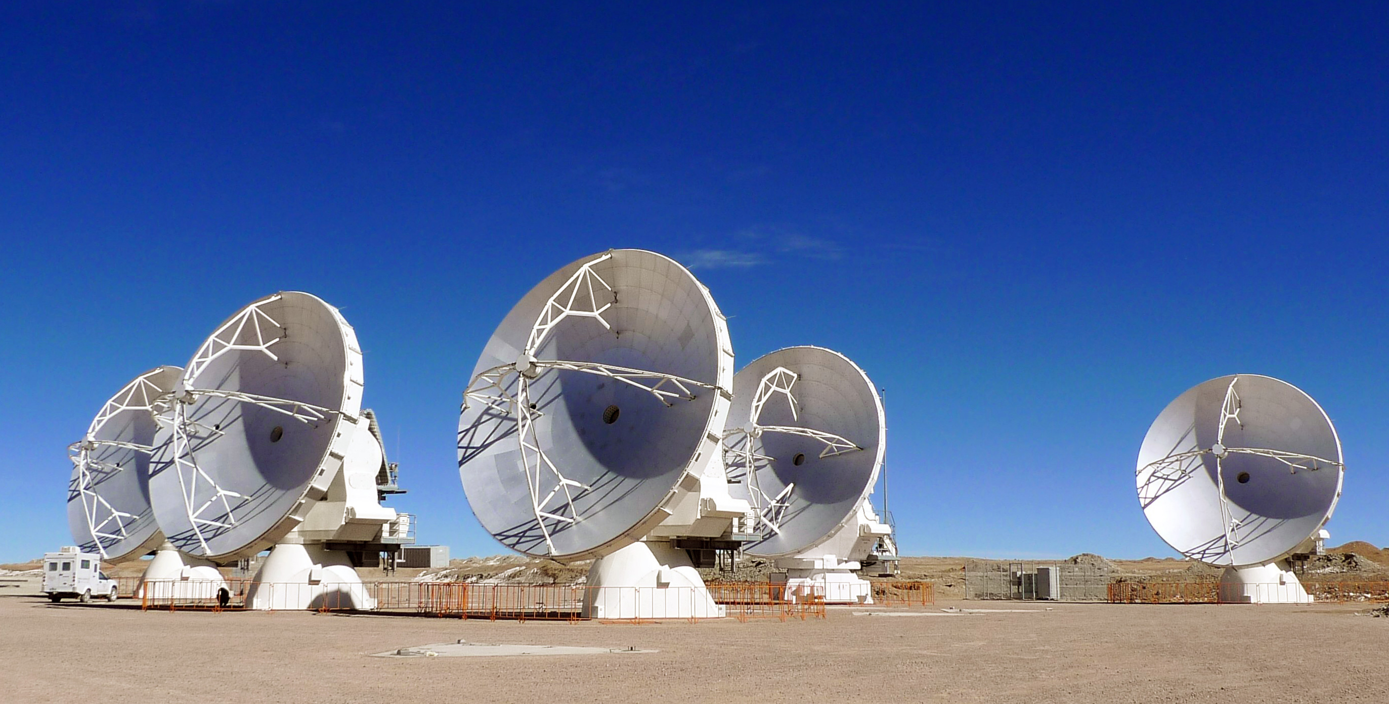 On the Chajnantor plateau, the Atacama Large Millimeter/submillimeter Array (ALMA) is growing. On 31 May 2010, the number of ALMA’s state-of-the-art antennas on the 5000-metre-altitude plateau in the Chilean Andes increased to five. This photograph shows the five 12-metre diameter antennas at the Array Operations Site, clustered on the closely spaced foundation pads of what will be ALMA’s “Atacama Compact Array”.